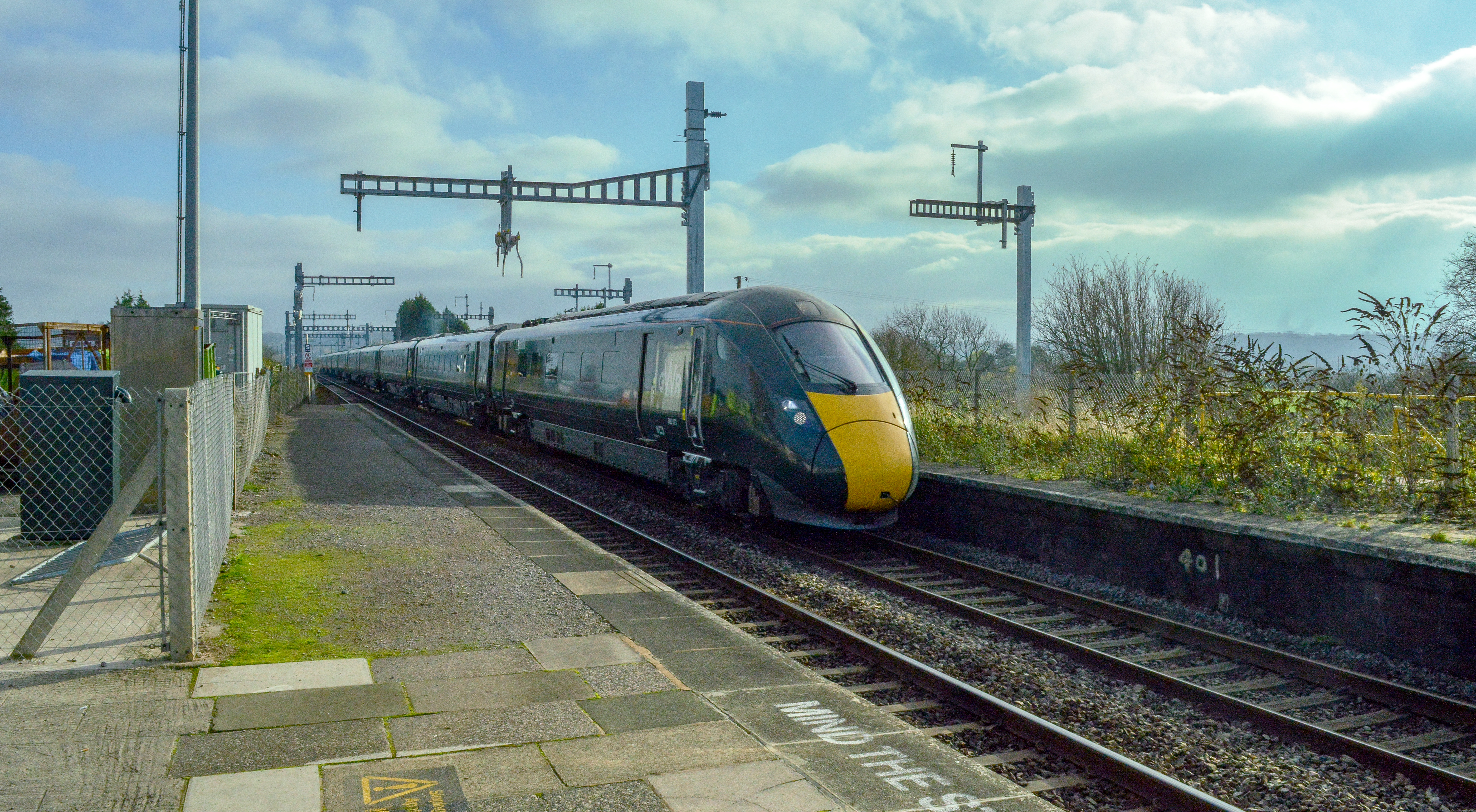 800022 800033 1B25 1045 Paddington to Swansea